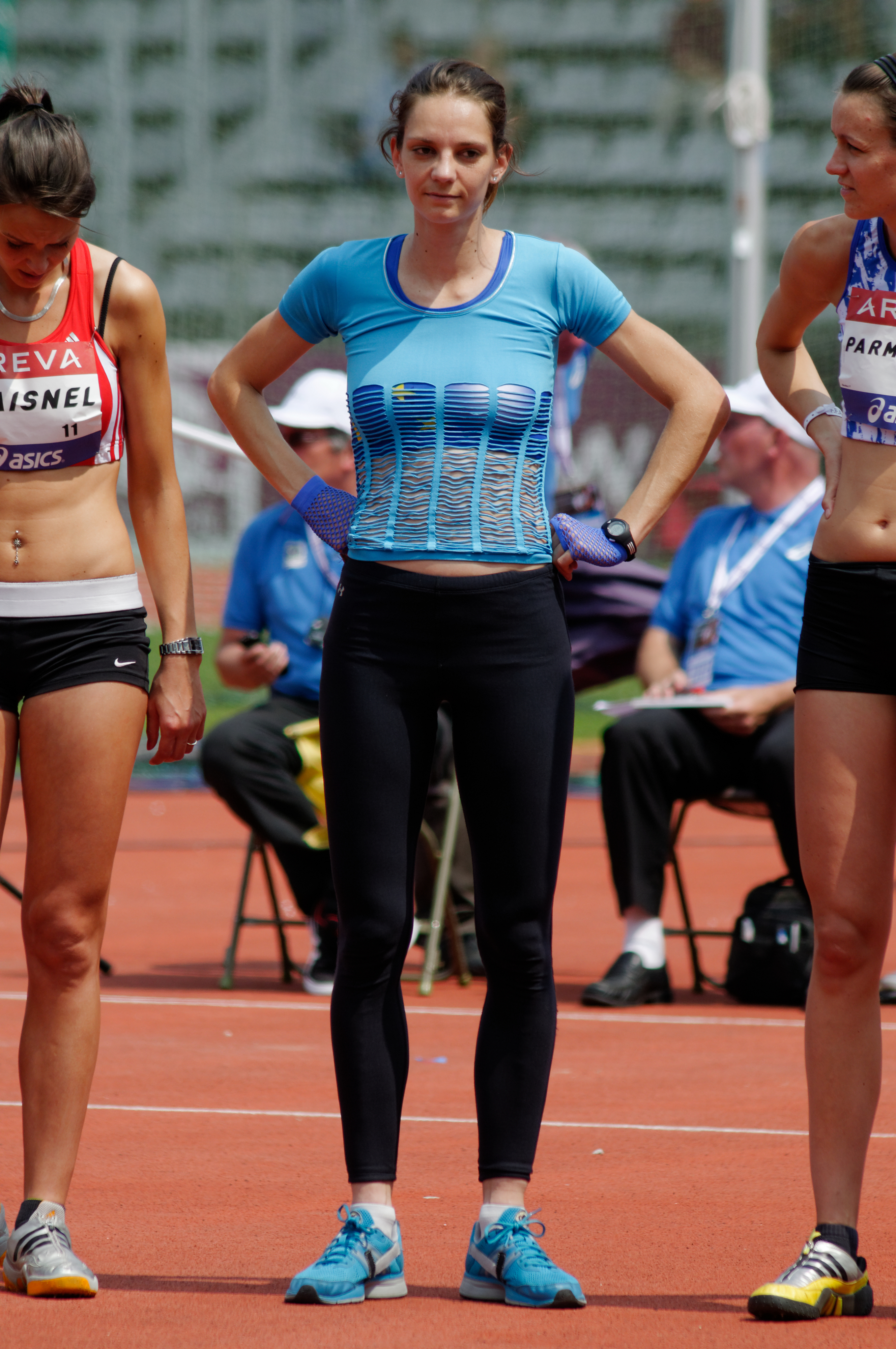 Melanie Melfort in the women's high jump final during the French Athletics Championships 2013 at Stade Charléty in Paris, 13 July 2013.